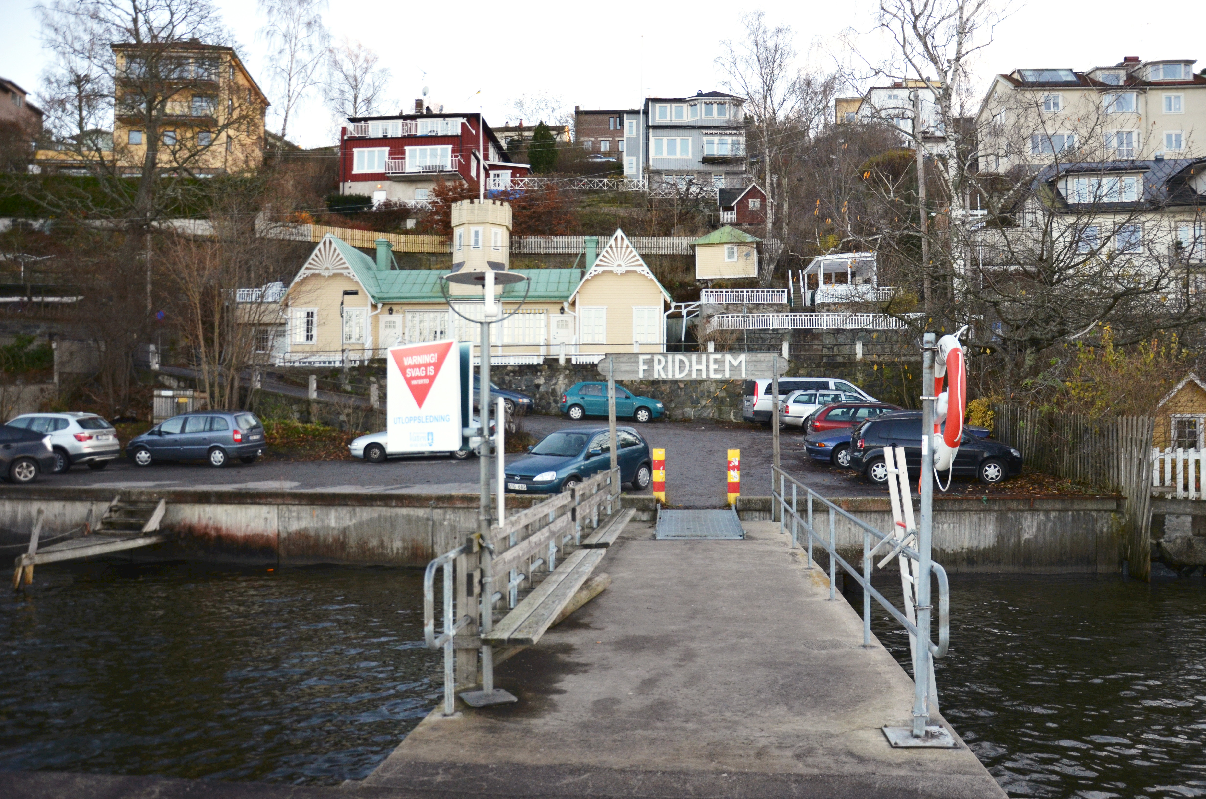 Fridhemsbryggan i Mälarhöjden i Stockholm